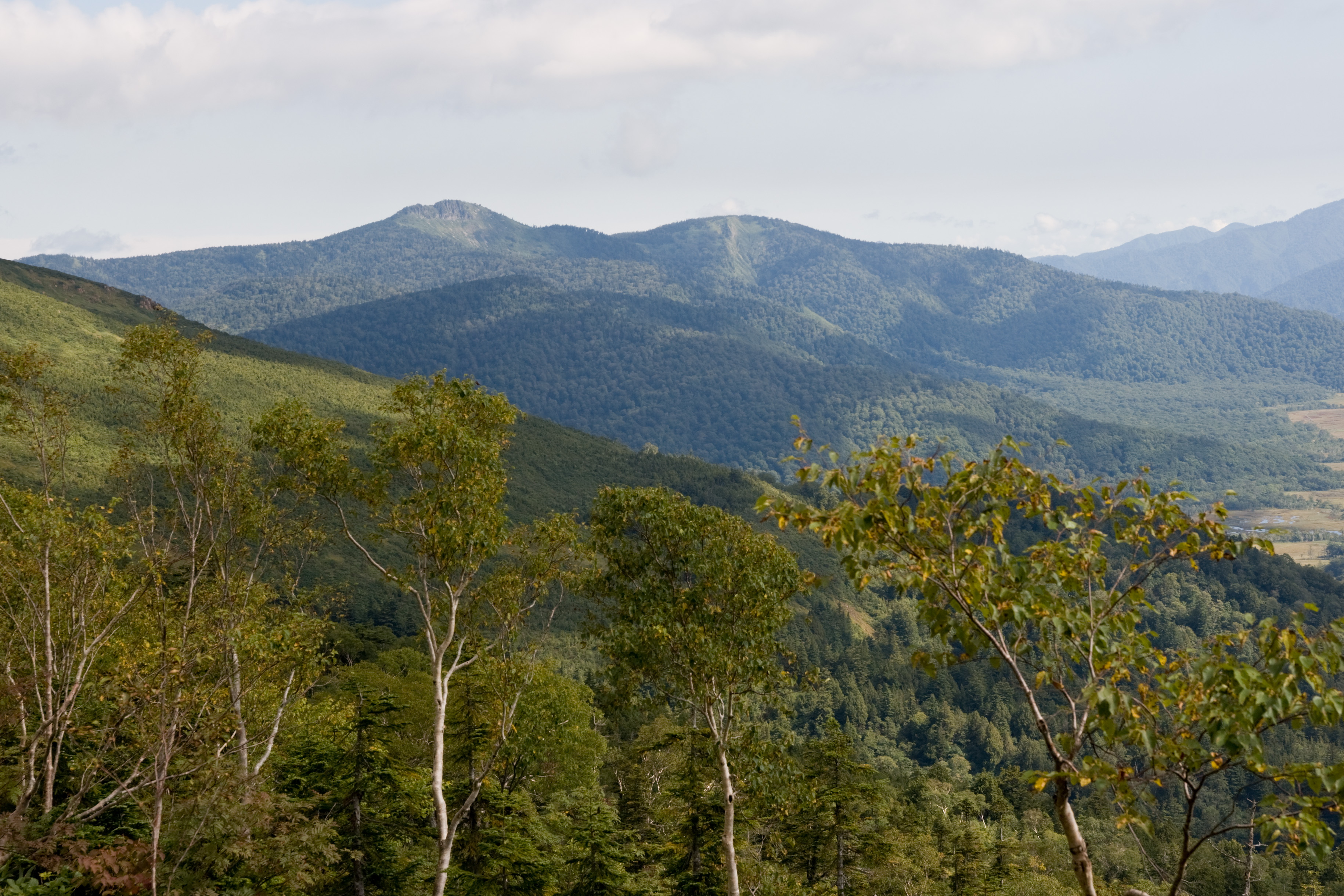 Mt. Keizuru as seen from Mt. Shibutsu, Gunma Pref., Japan.